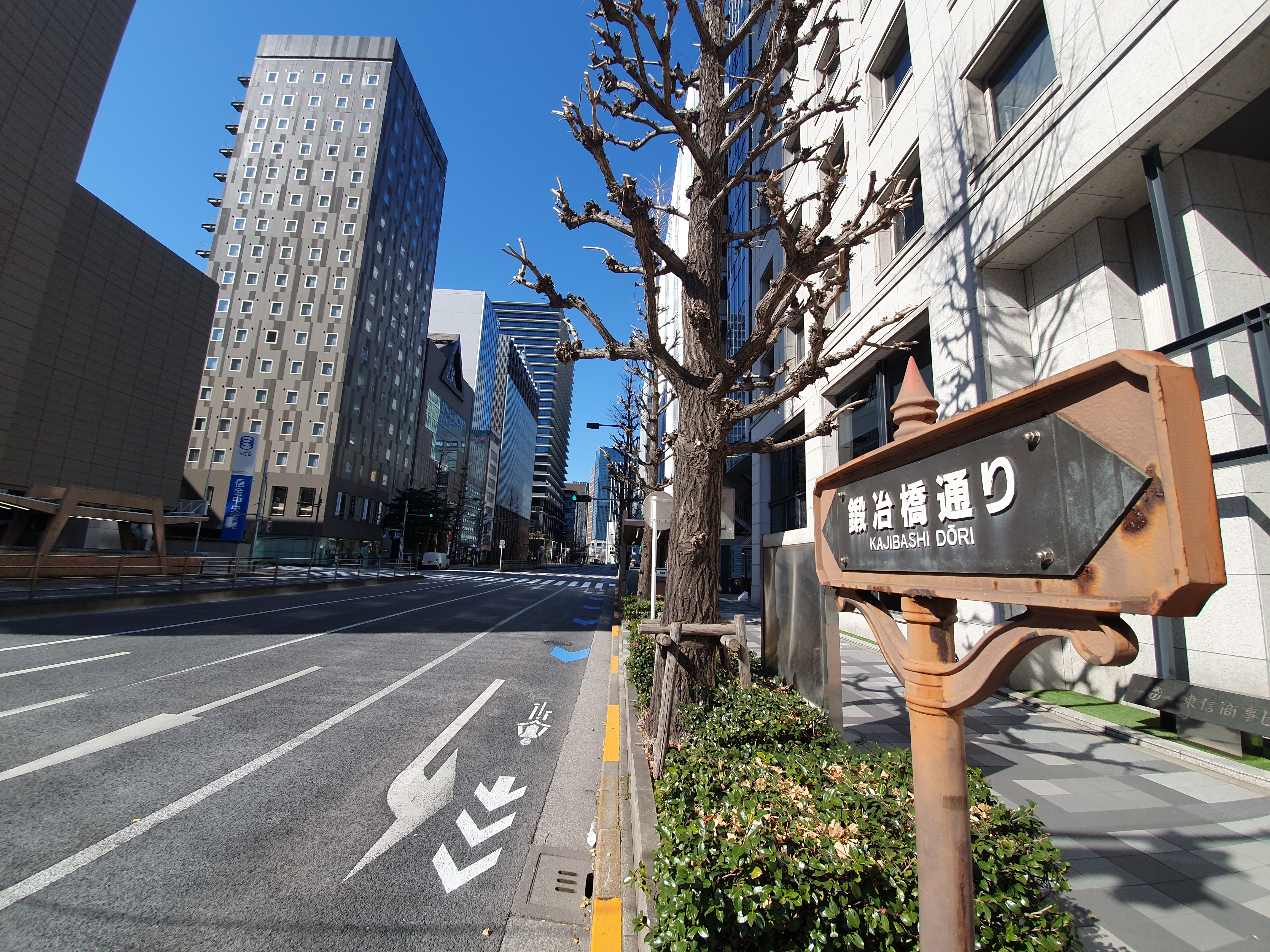 Kajibashi dori